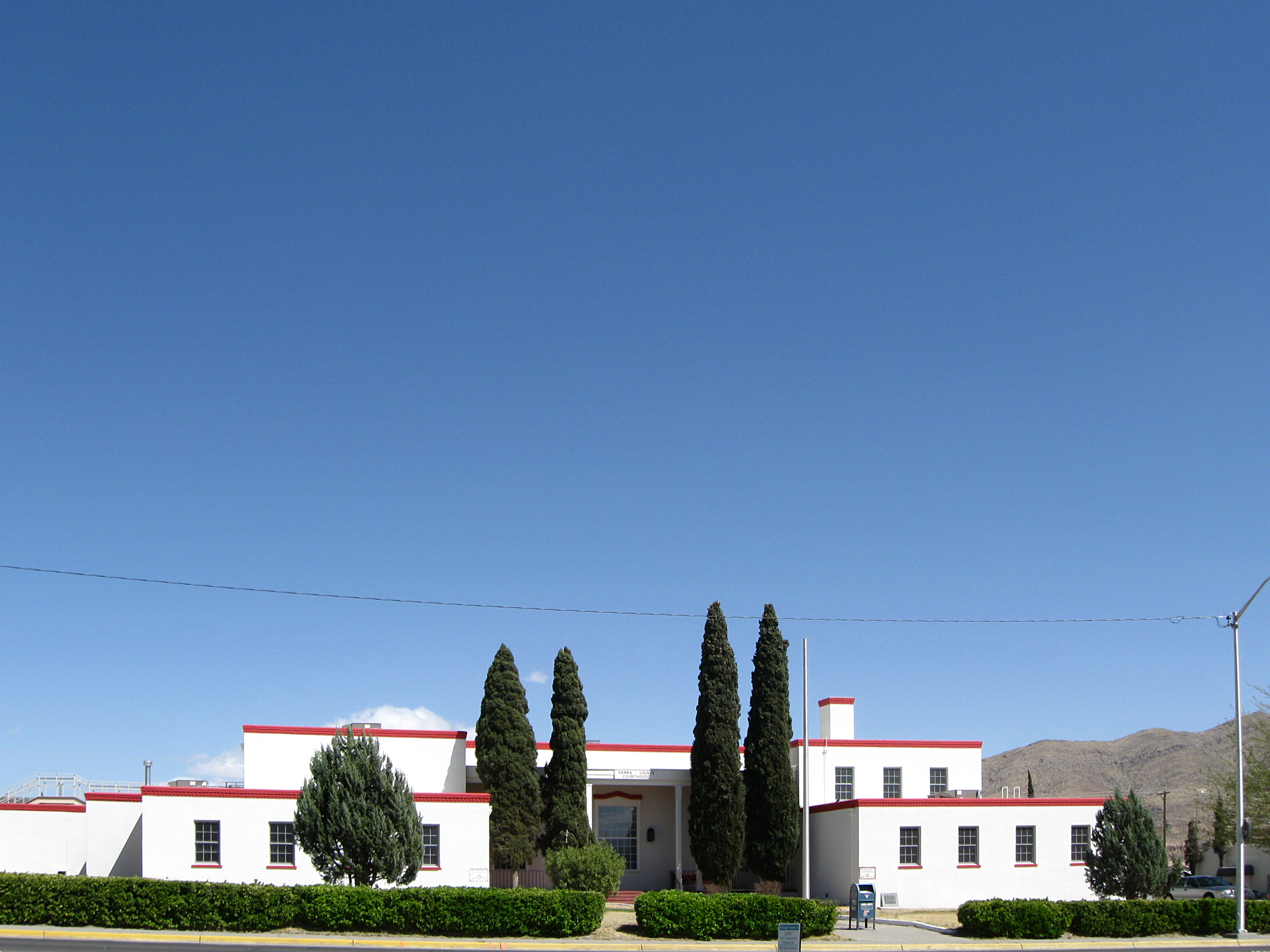 Sierra County (New Mexico) Court House, located at 311 North Date Street in Truth or Consequences, New Mexico